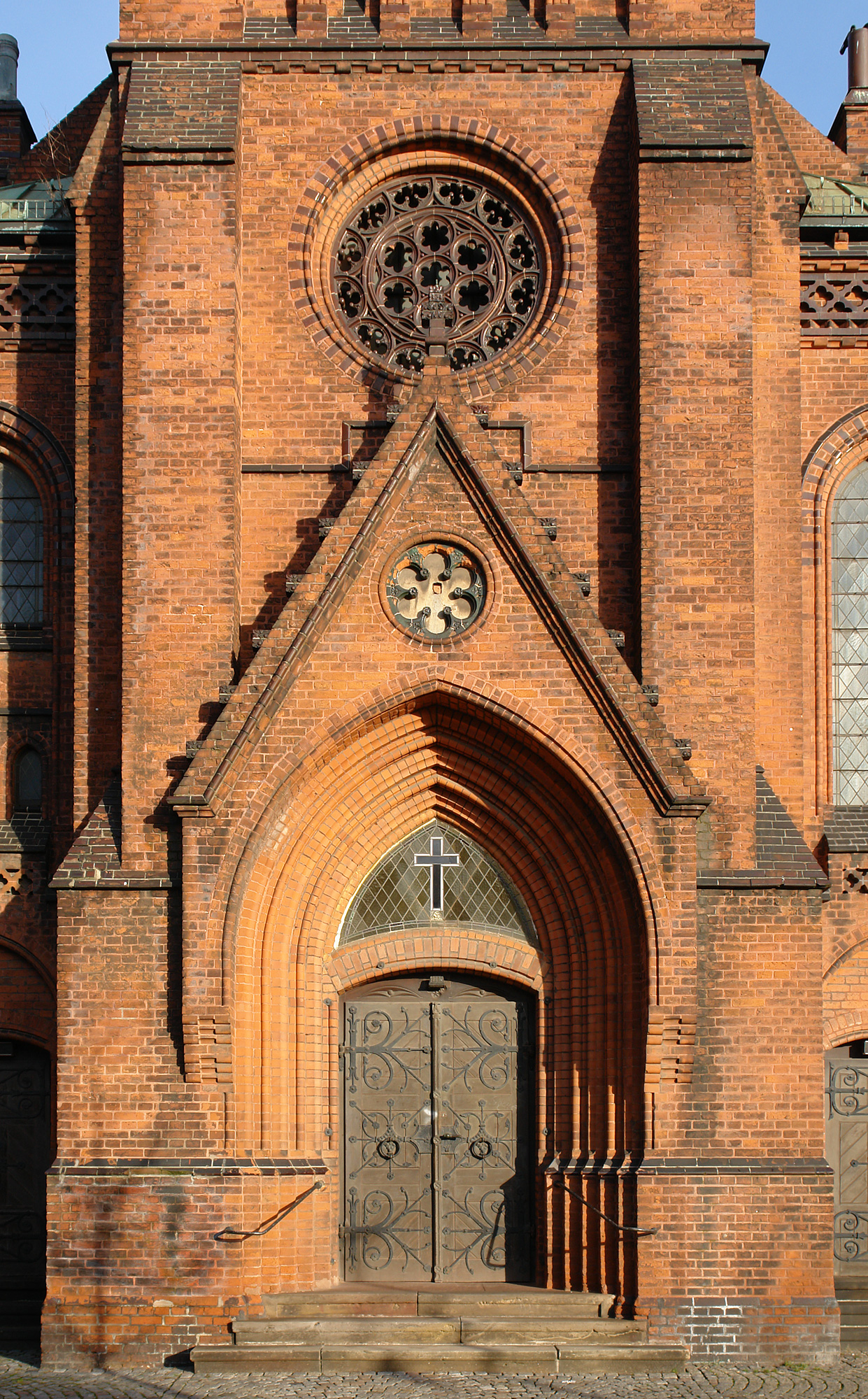 Church portal in Hemelingen, BremenDas abgebildete Objekt ist ein geschütztes Kulturdenkmal in der Freien Hansestadt Bremen, mit der Nr. 1223 beim Landesamt für Denkmalpflege registriert.